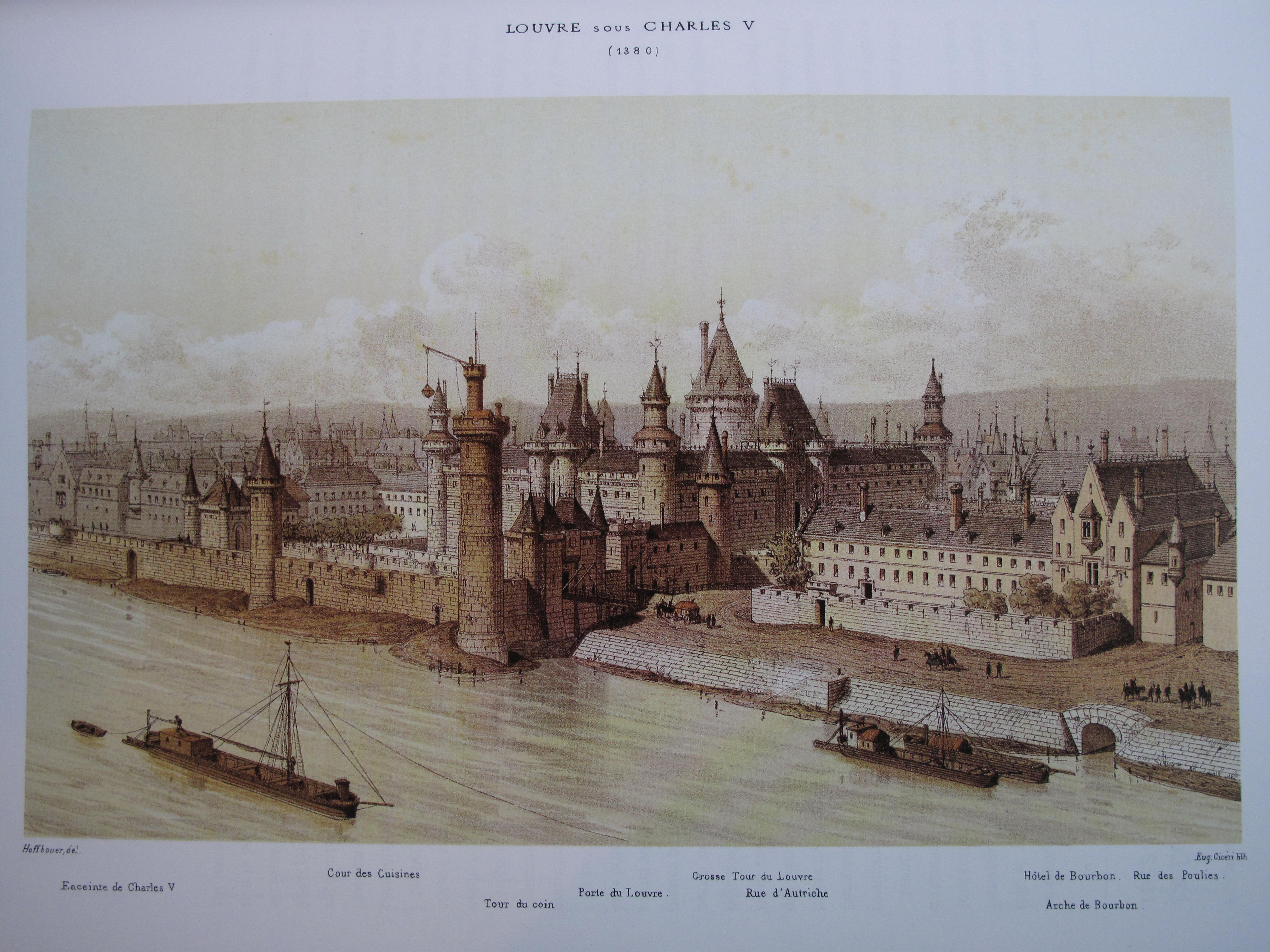 The fortress of the Louvre circa 1380 (Paris, France). The tour du Coin (=corner tower) is at the jonction of the wall of Philippe-Auguste to the right side with the Louvre gate and in the back of the hotel Bourbon. And of the wall of Charles V to the left side along the Seine river.